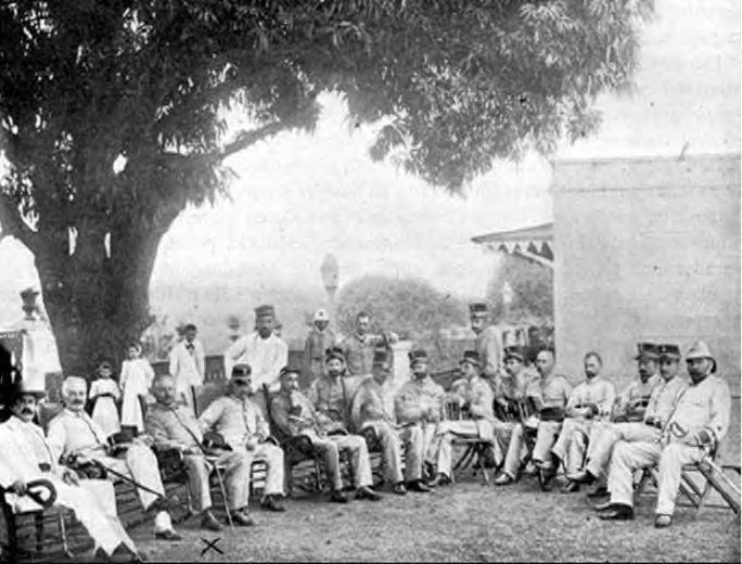 Col. Julio Soto Villanueva with his Staff in Mayaguez in 1898